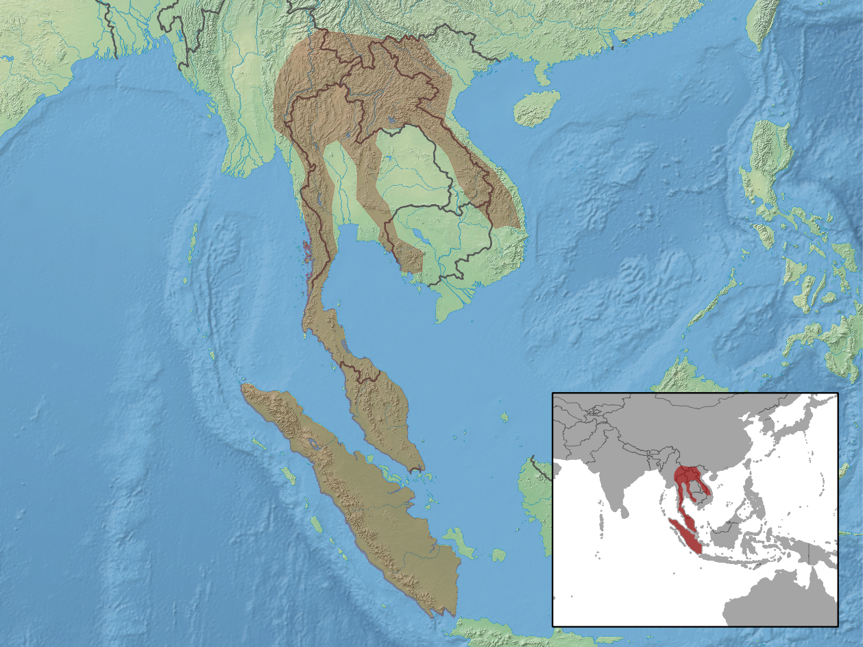 geographic distribution of Rhizomys sumatrensis